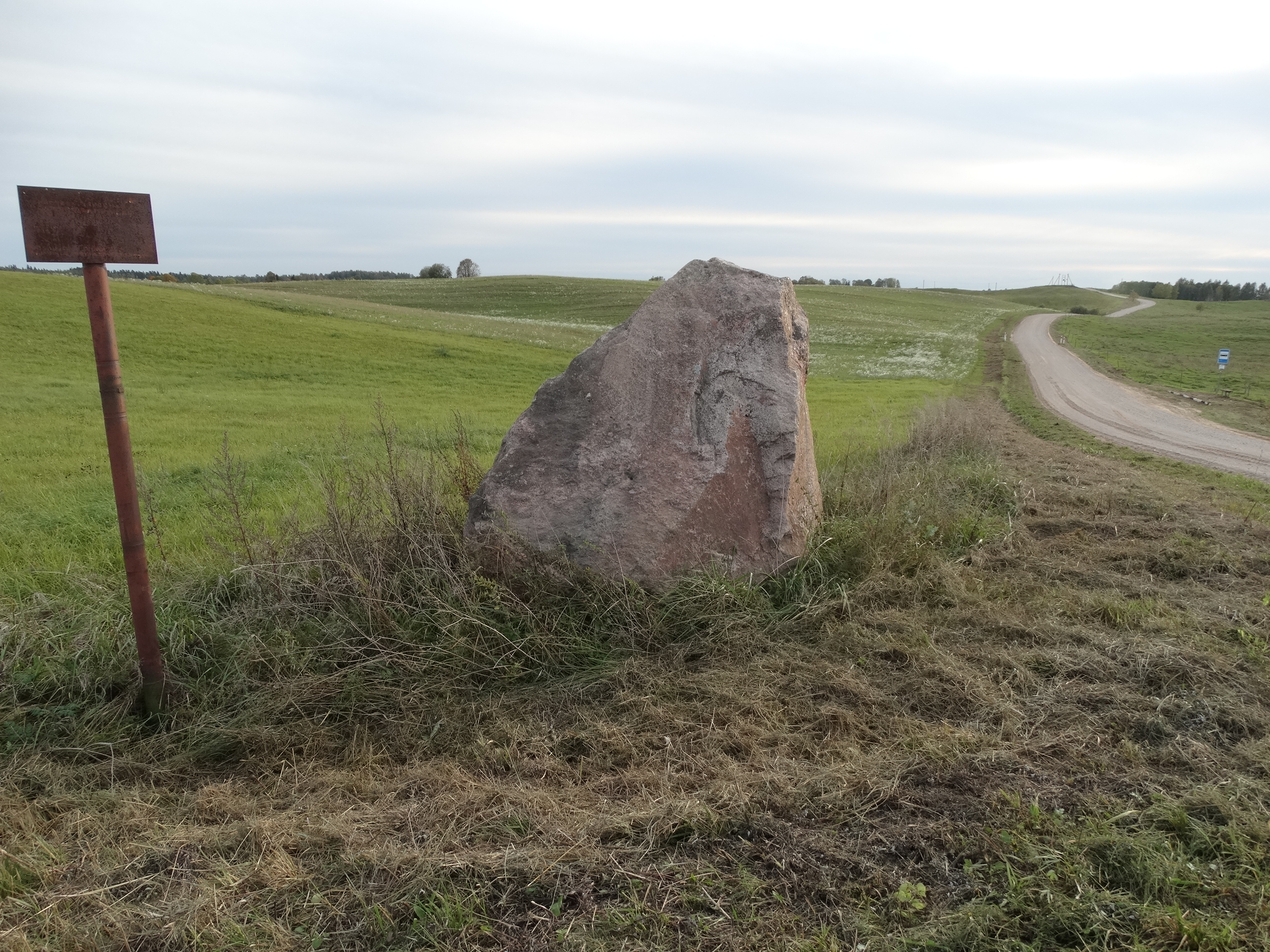 Stone N2 in Medinai, Kaišiadorys District, Lithuania